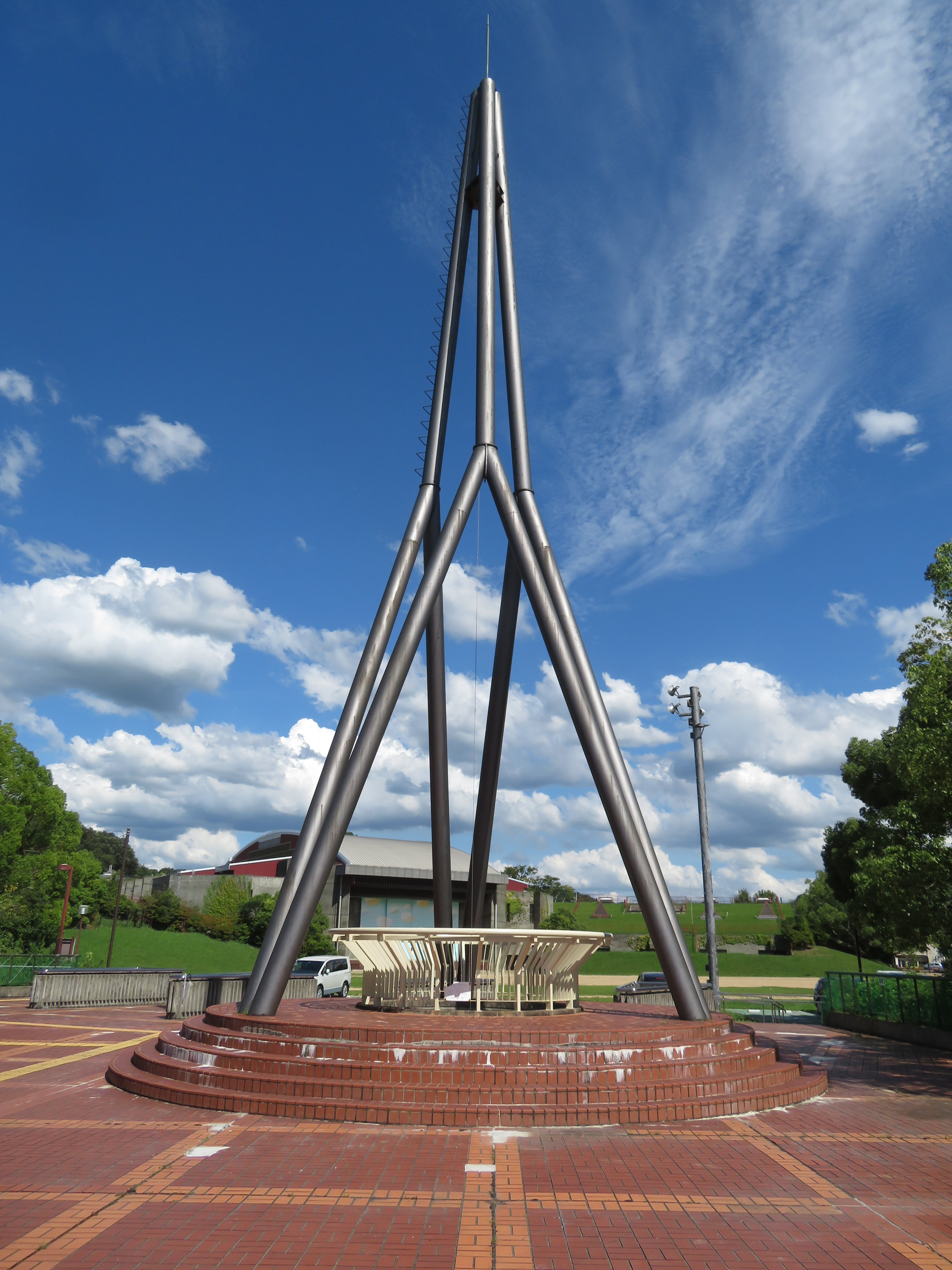 Foucault pendulum in Dojiyama Park